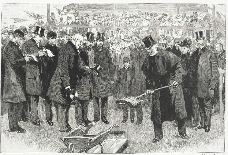 The first sod of the Wirral Railway was cut by William Gladstone using a silver-mounted spade. The proceedings were opened by Sir Edward Watkin.